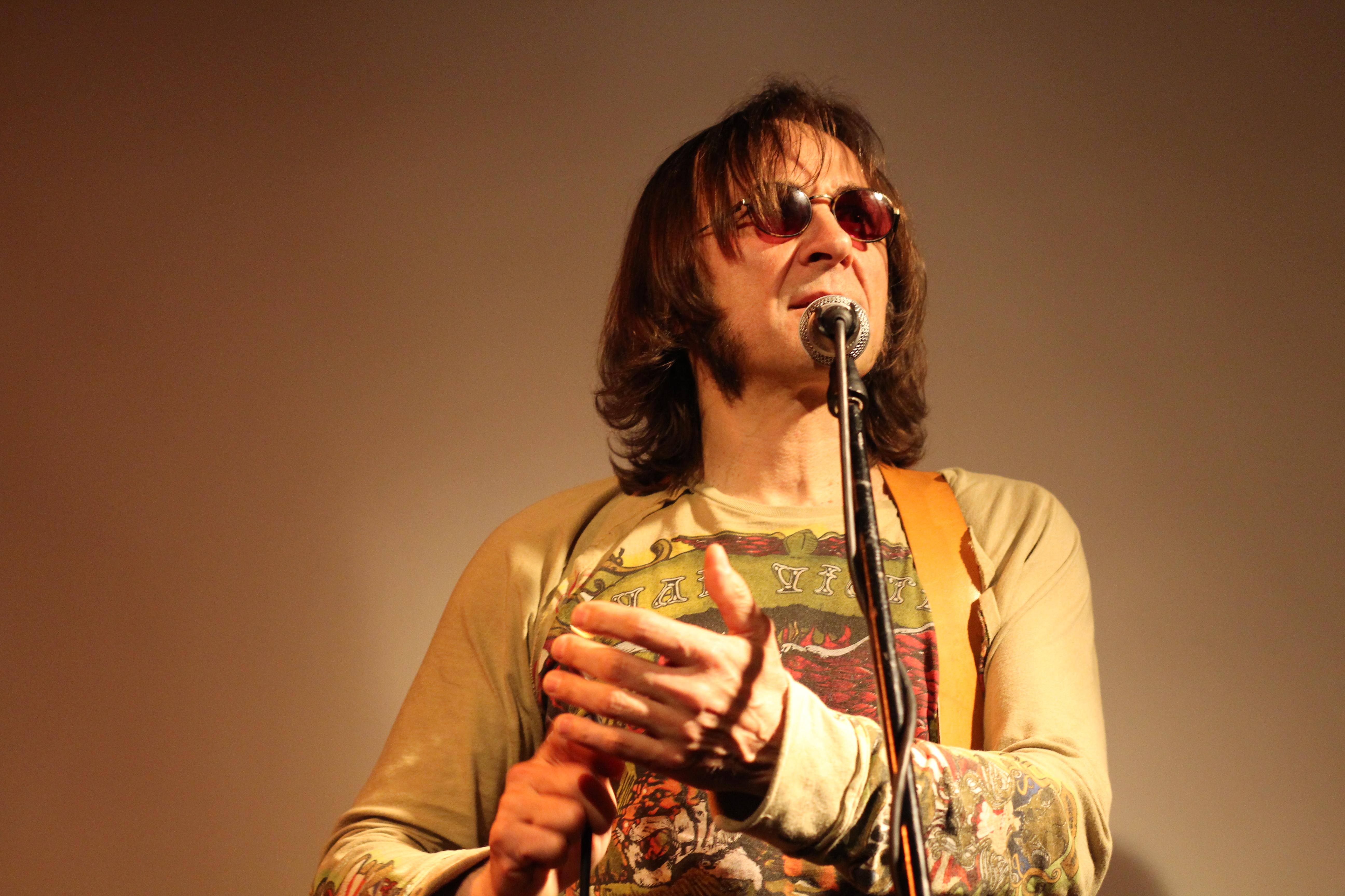 Janusz Iwański, best known as Yanina, Polish jazz and rock guitarist, composer, songwriter and vocalist performing at 19th edition of "Gadający Pies" ("The Talking Dog").